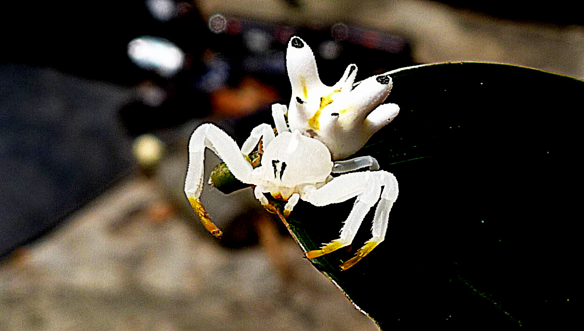 Epicadus heterogaster (Guerin, 1829)